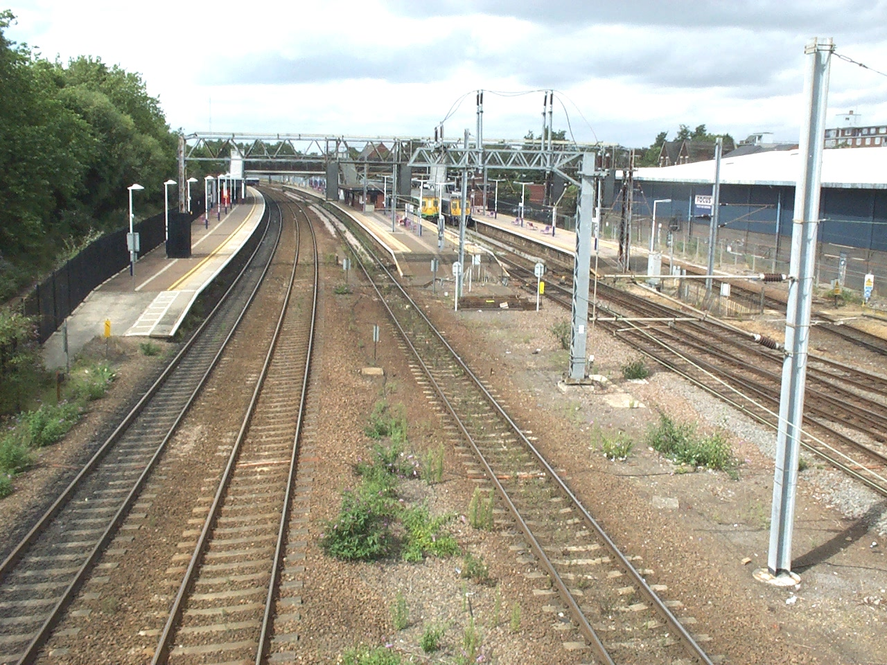 Bedford Station from the footbridge into Queens Park which is to the south of it.